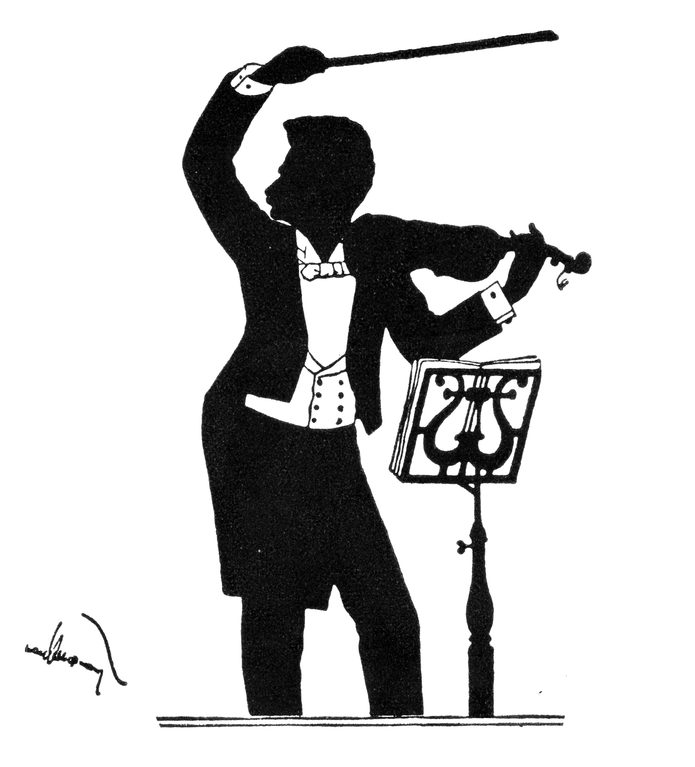 Johann Strauss II (1825–1899), Austrian composer and conductor; silhouette by Hans Schließmann. Detail of the cover of the book: Hans Schliessmann Dirigenten Titel